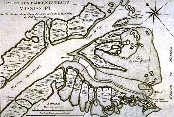 1744 map of the Gulf East Pass mouth of the Mississippi River, with the town of La Balize shown. "Carte des Embouchures du Mississipi (sic) [Map of Entrances to the Mississippi River]"